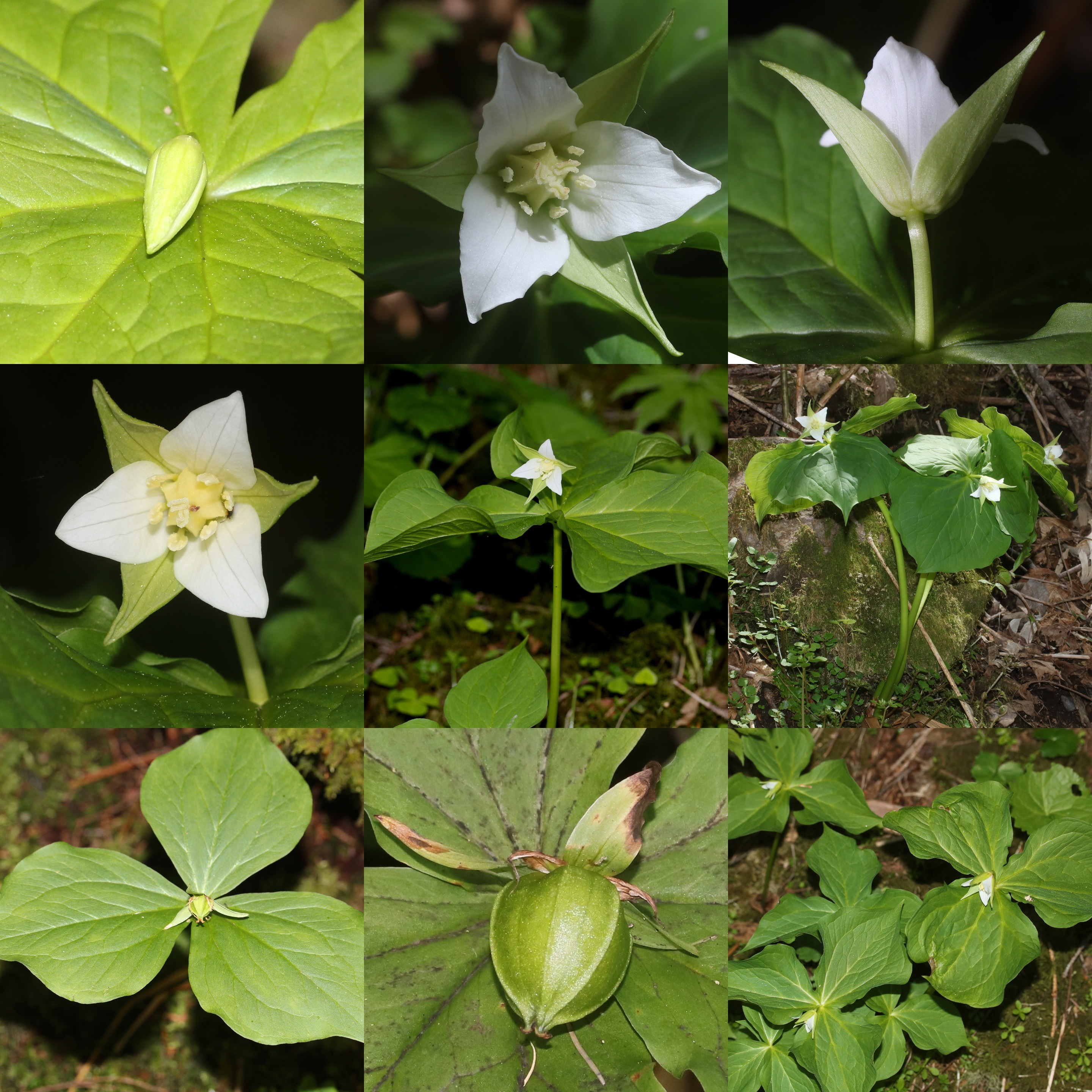 Montage of Trillium tschonoskii.